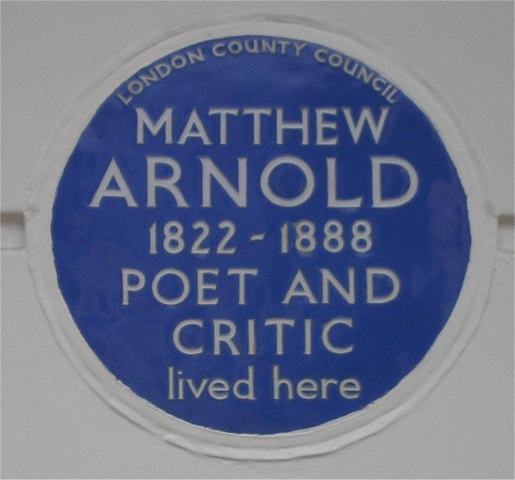 Blue plaque to Matthew Arnold on his house at 2 Chester Square, London, England. Photographed by me 29 September 2006. Oosoom